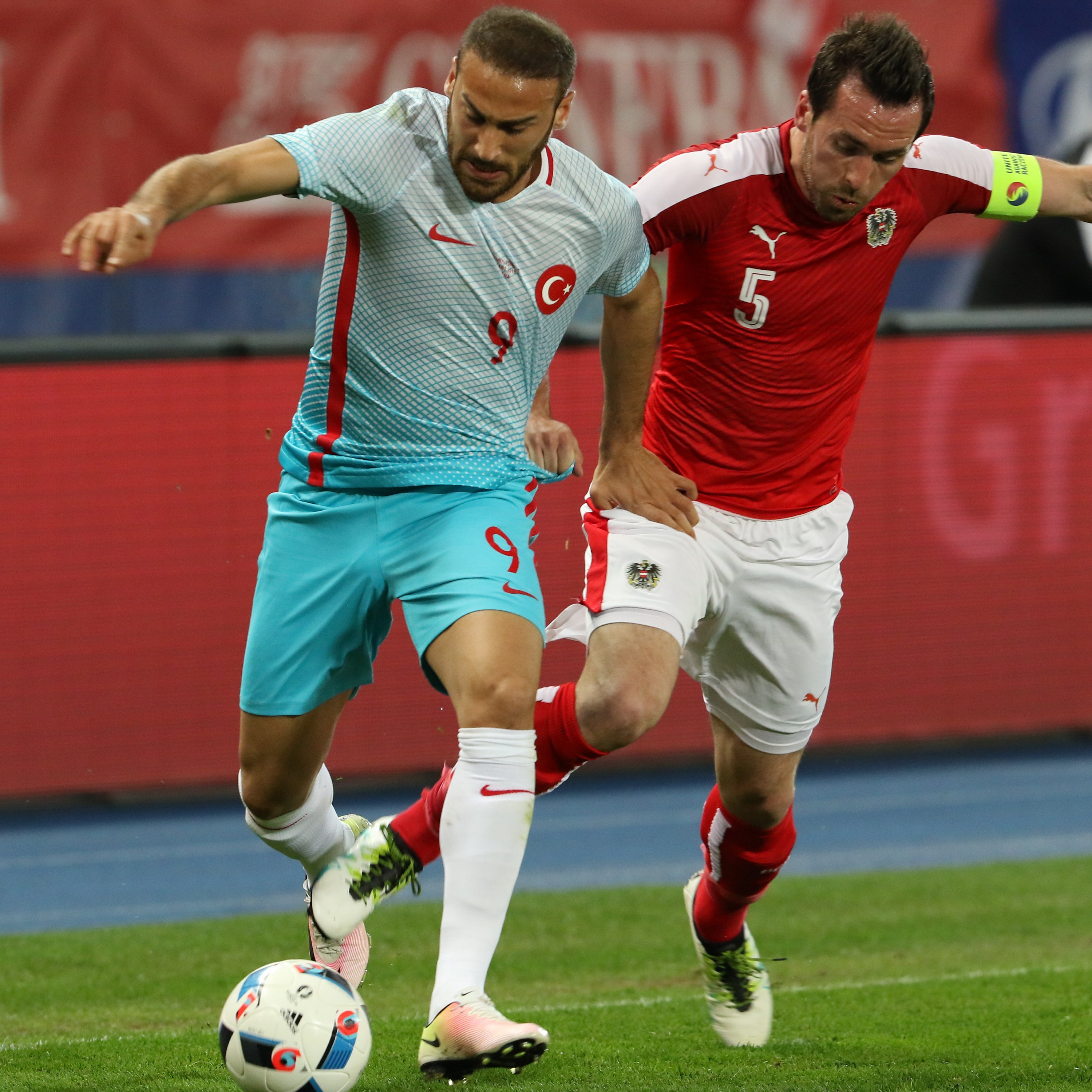 Friendly match – Austria (red shirts) vs. Turkey (blue shirts) 1–2 (1–1) on 2016-03-29 in Ernst-Happel-Stadion, Vienna – The photo shows Cenk Tosun (left) and Christian Fuchs (right).